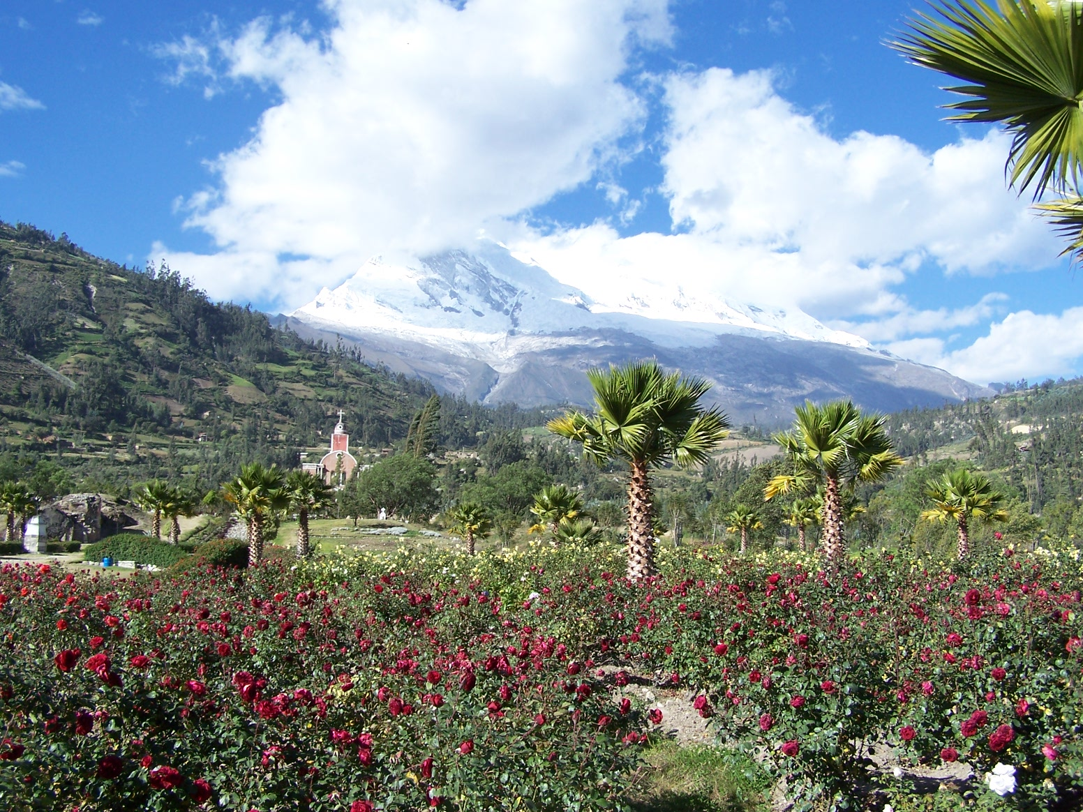 Huascaran as seen from Yungay National Cemetery. Photo taken by Jared Stahl, June 2007